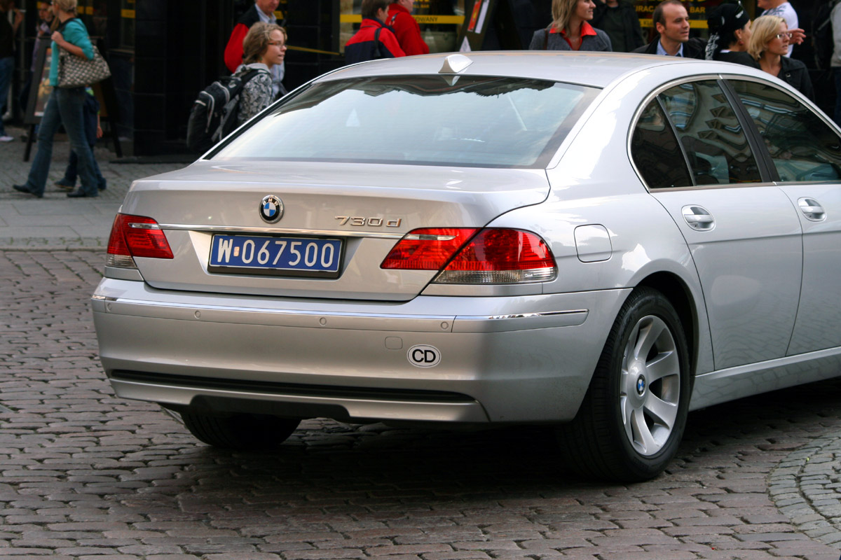 BMW 730d with sign of corps diplomatique in Poland